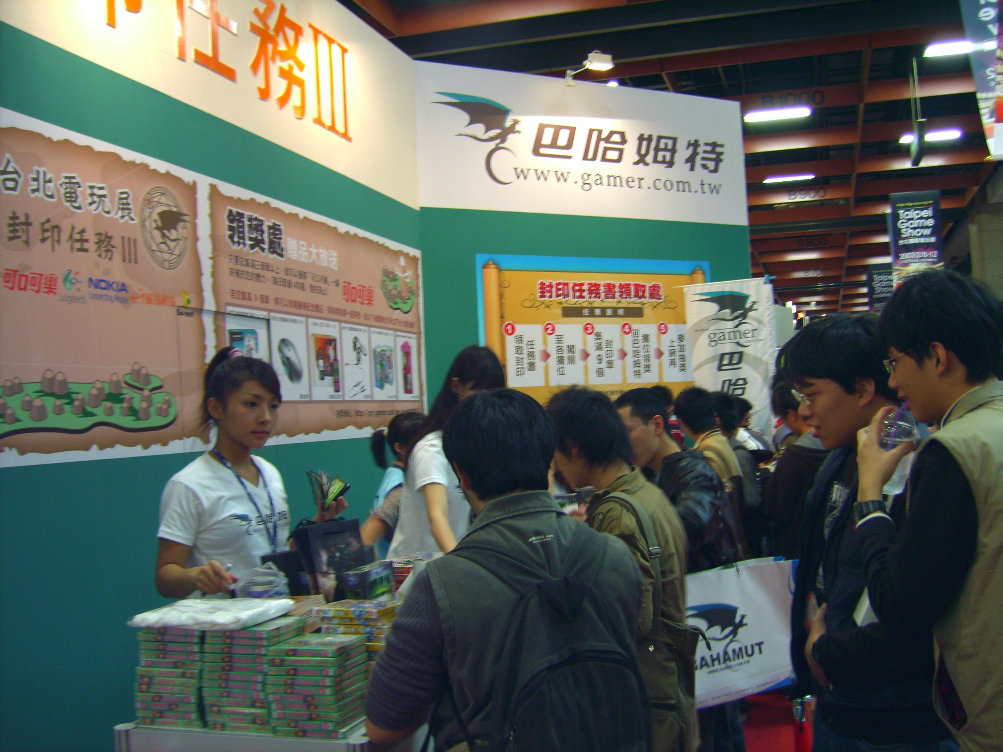 2007 Taipei Game Show: One of media sponsor - Bahamut Gamer's Community.